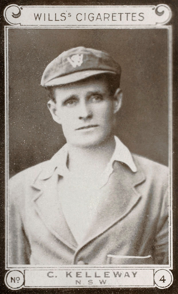 A vintage cigarette card featuring cricketer Charles Kelleway of New South Wales, circa 1920.